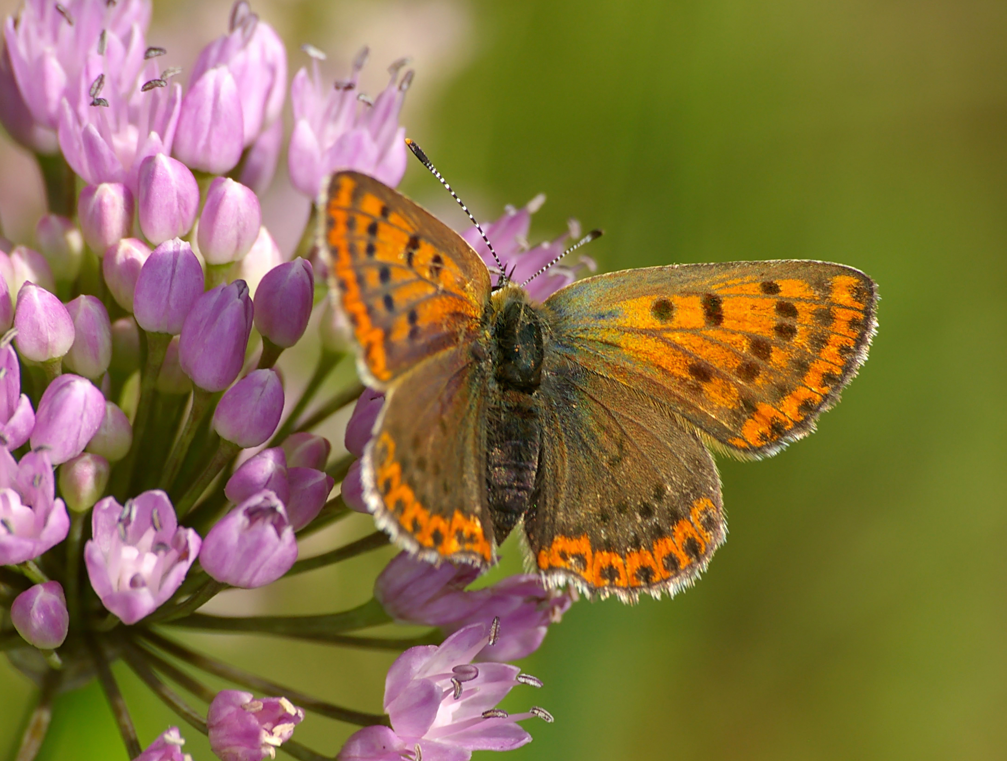 Female specimen of the butterfly Sooty Copper, Lycaena tityrus, sitting on an inflorescence of Allium sp.